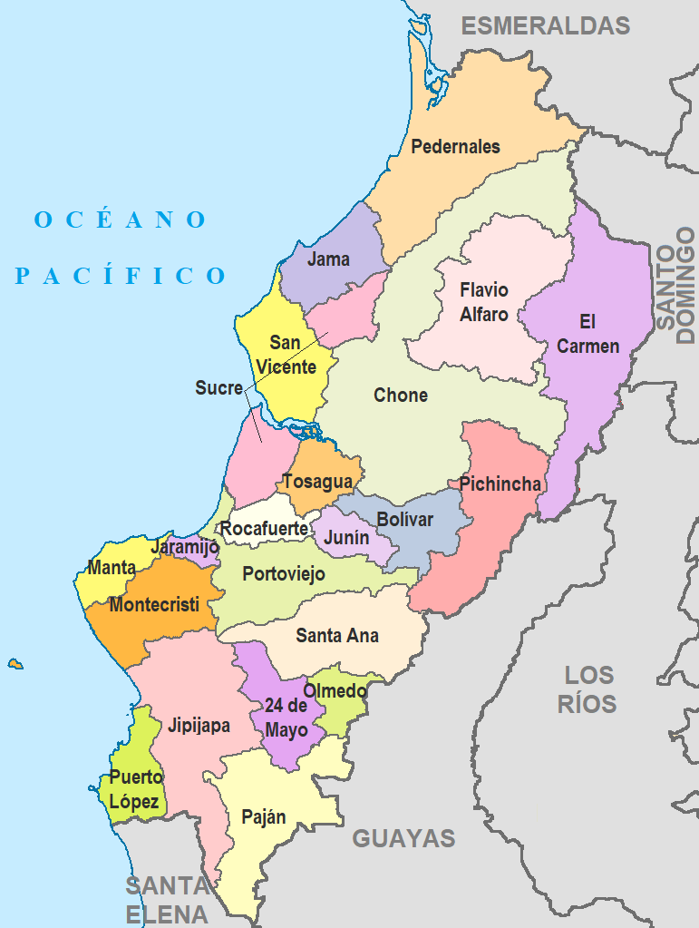 Cantons of Manabi